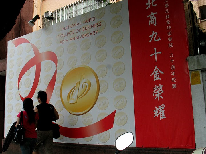 National Taipei College of Business 90th Anniversary.